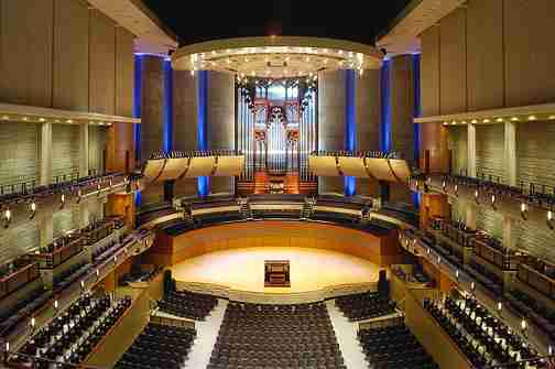 A publicity photo of the Francis Winspear Centre for Music in Edmonton, Alberta